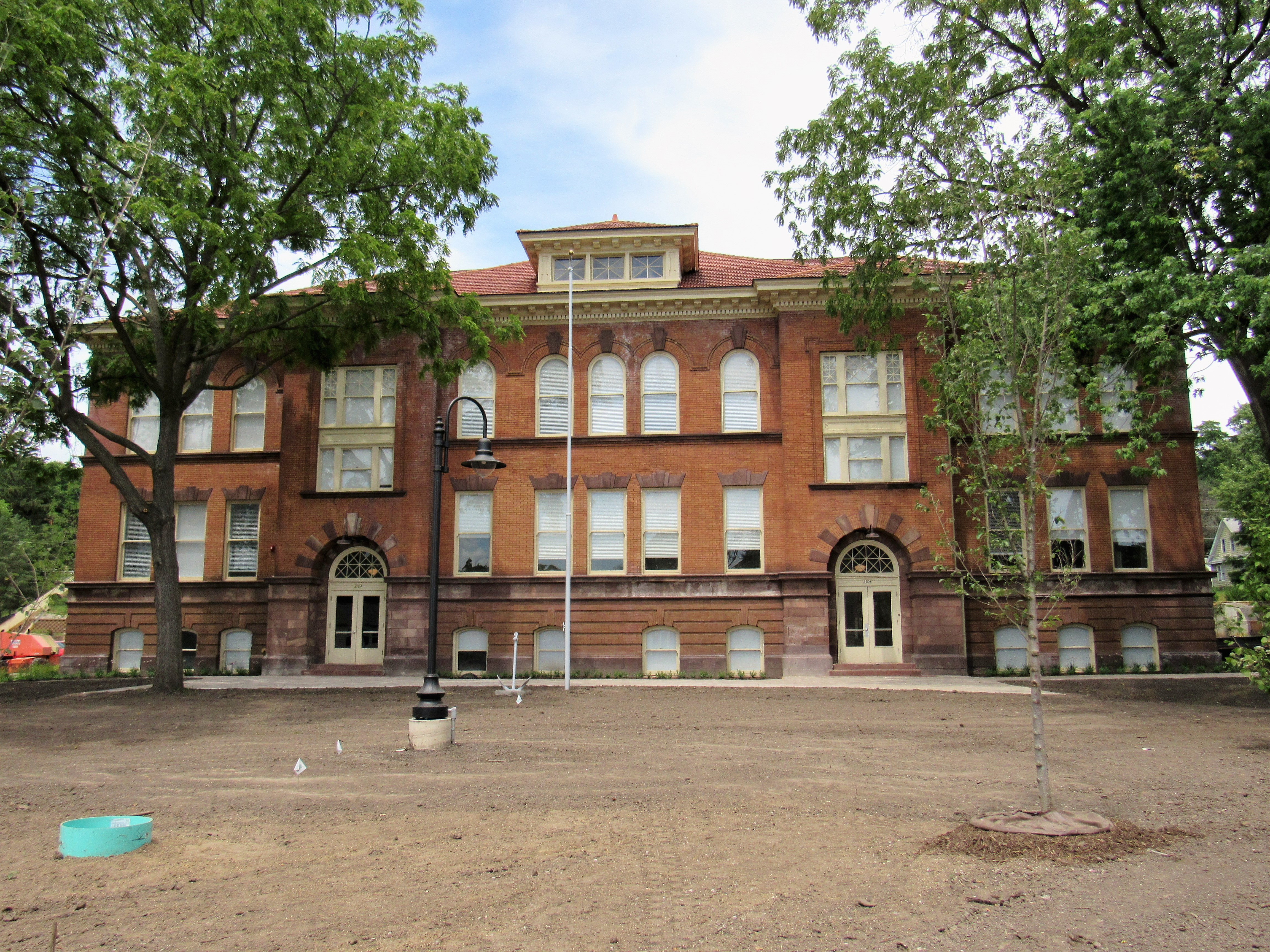 Former Buchanan School in Davenport, Iowa. It was converted into apartments in 2019.